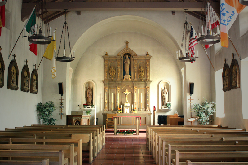 Photo taken of the interior of the chapel at Mission San Rafael Arcángel in San Rafael, California, USA.